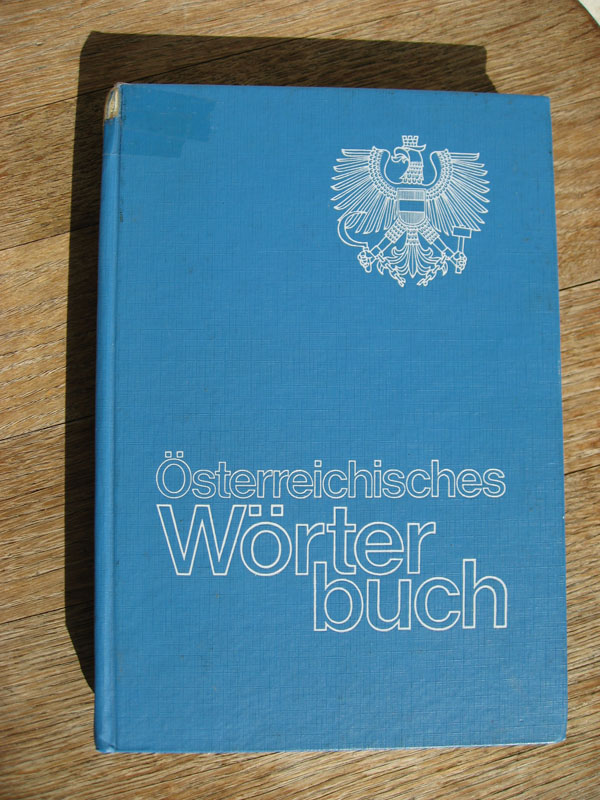 Cover of the official Austrian dictionary (Österreichisches Wörterbuch), 36th edition, medium size version for use in schools